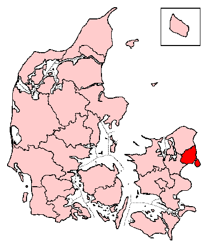 Map of Copenhagen County 1793-1808